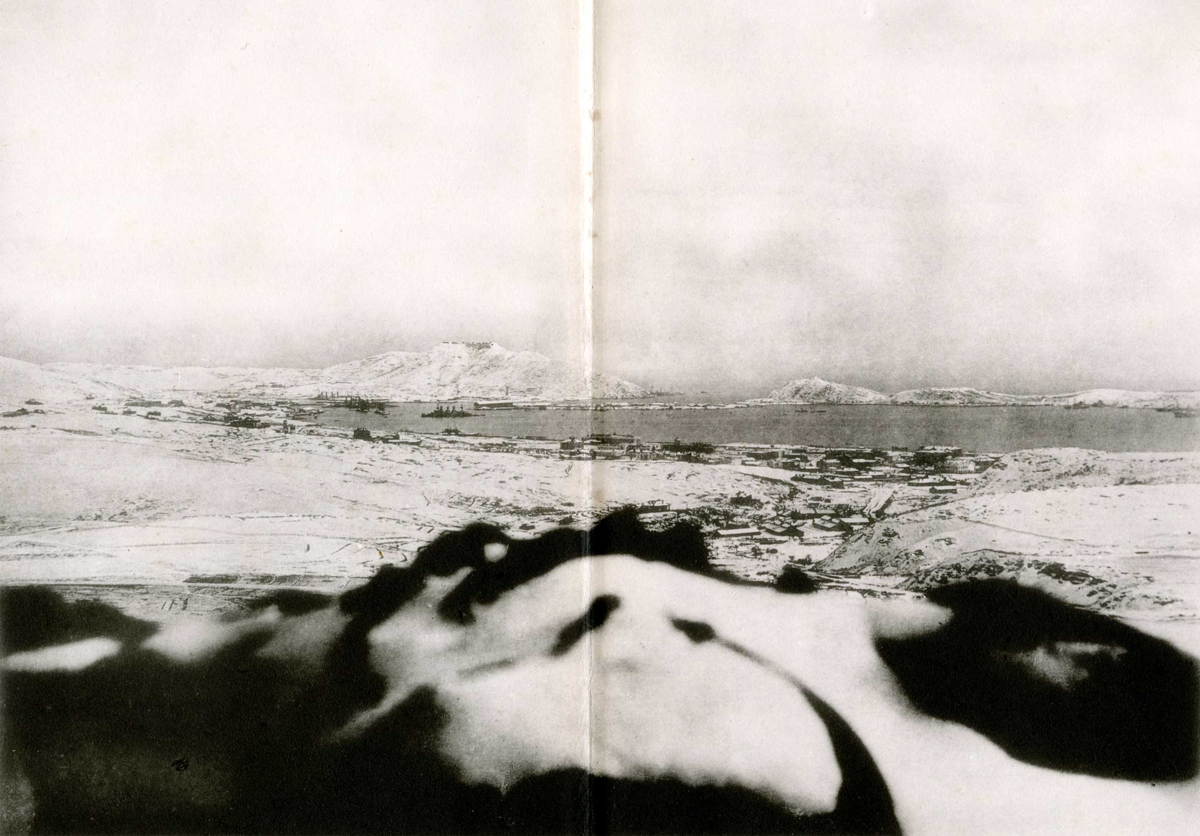 Port Arthur viewed from the Top of the 203 Meter Hill, December 14